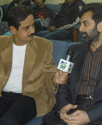 Hammad Siddiqui talking with Geo Super during Shuhada-e-Haq Tape Ball Cricket Tournament 2011 at Asghar Ali Shah Cricket Stadium, Karachi